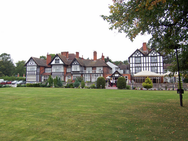 The Golf Hotel, Woodhall Spa, built in 1880, is located within 7 acres of gardens, lawns and woodland adjacent to Woodhall Spa Golf Course and 18 miles from the city of Lincoln.